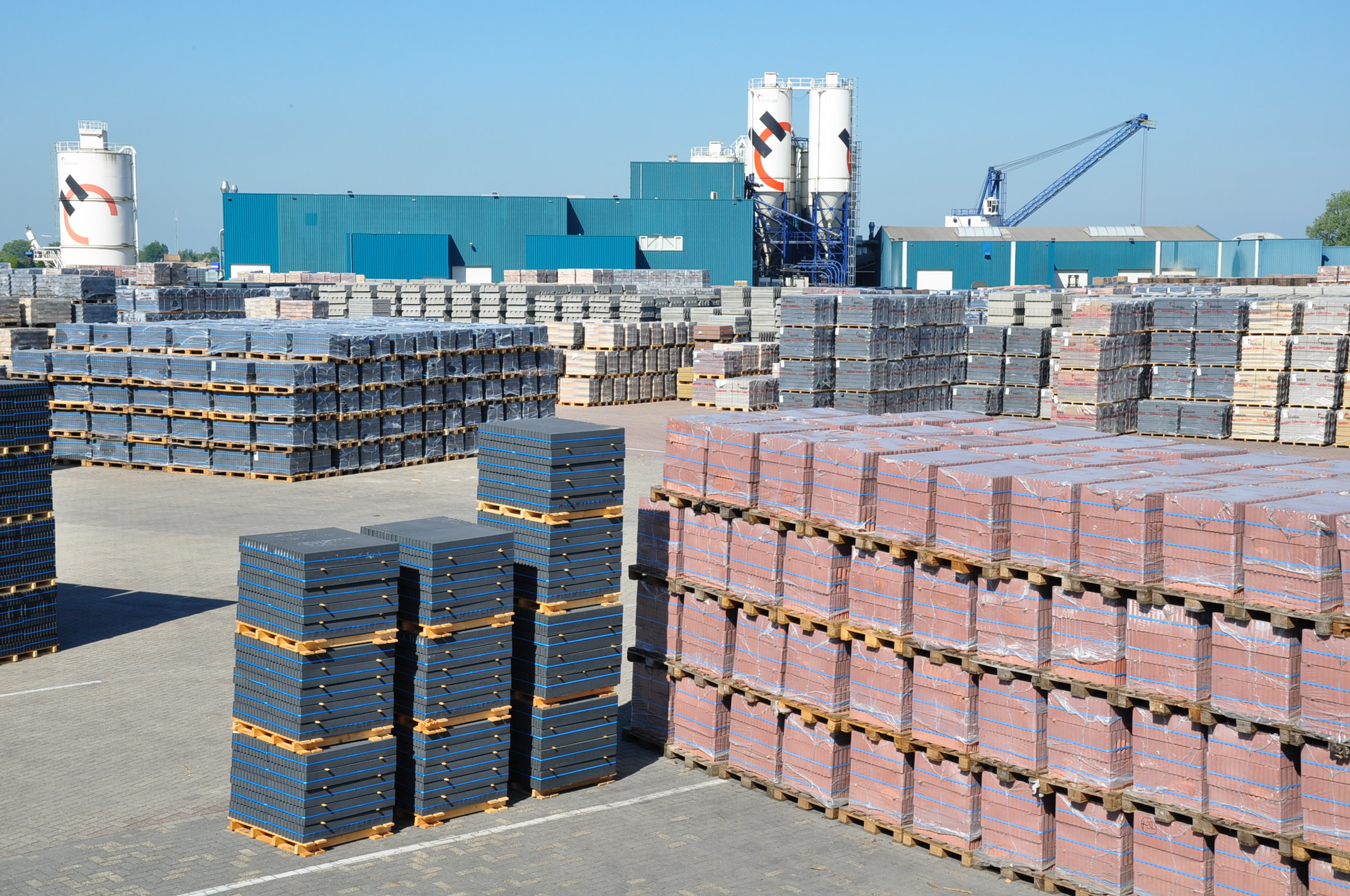 Brickyard between Aalst and Nederhemert-north, on the river Meuse (not visible, lies beyond the factory). Municipality of Zaltbommel, Province of Gelderland, Netherlands.